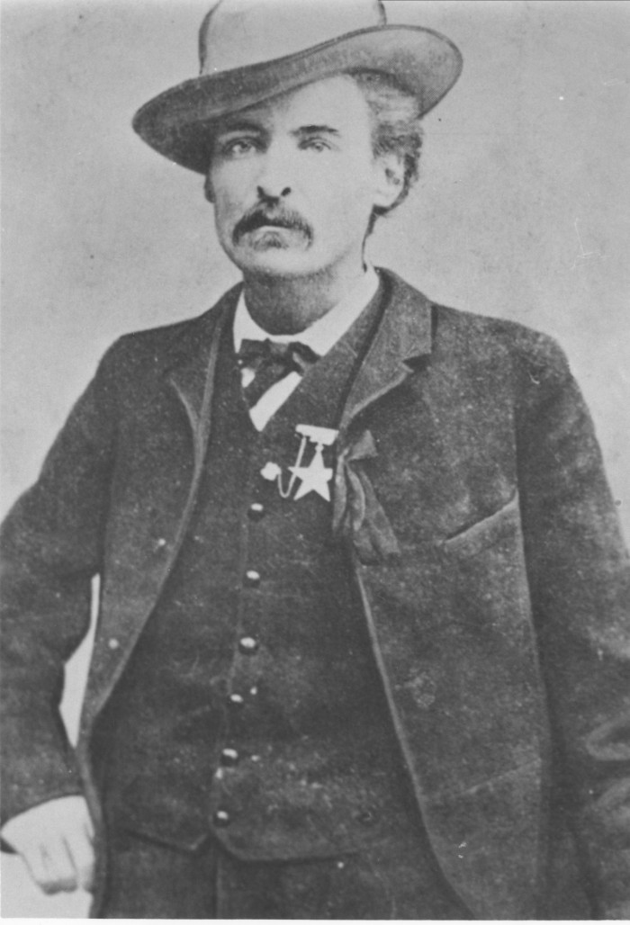 Ft. Worth Sheriff Jim Courtright was killed in a gunfight with gambler and gunfighter Luke Short.